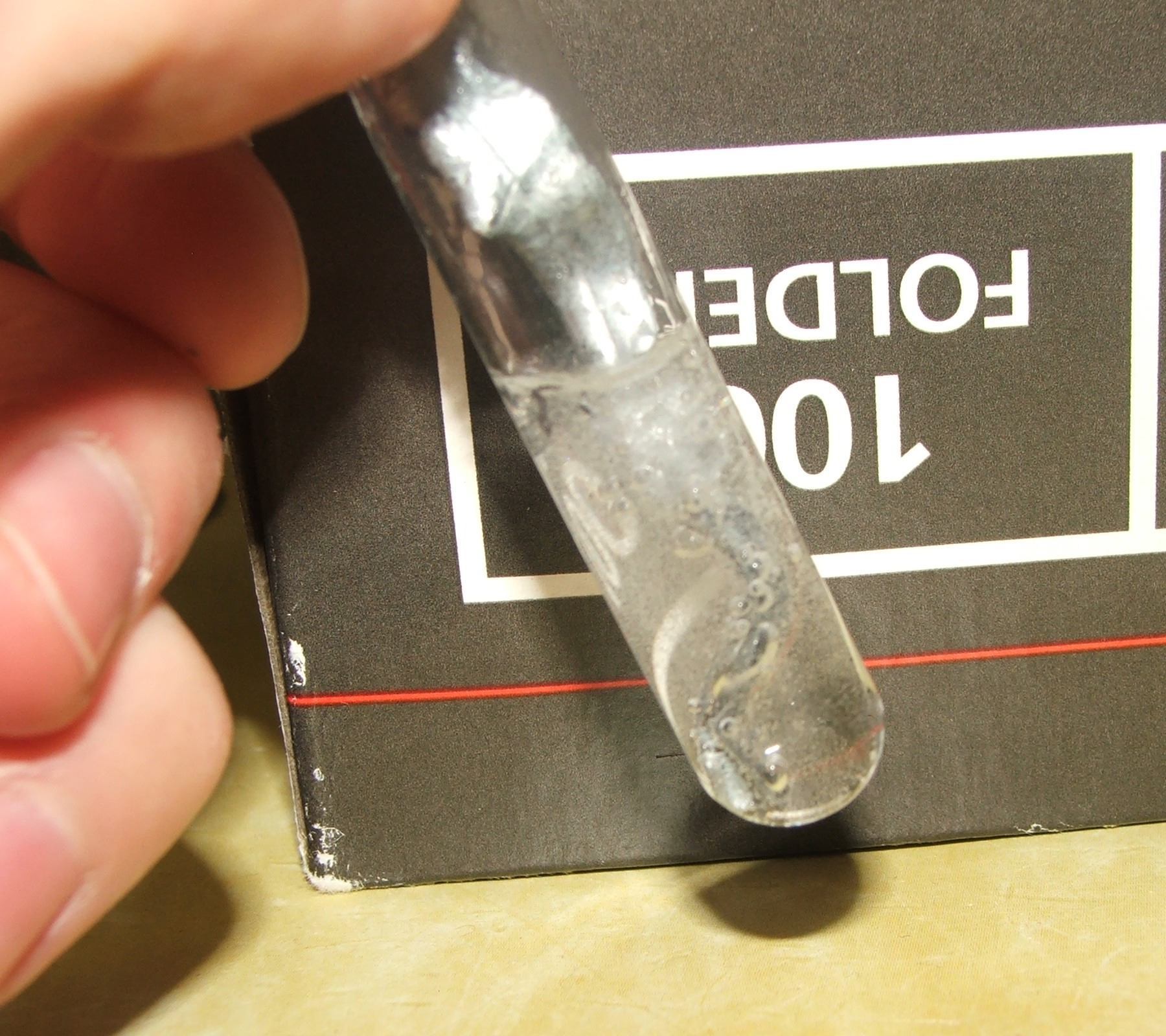 Zinc reacting with hydrochloric acid. This is a typical metal-acid reaction.